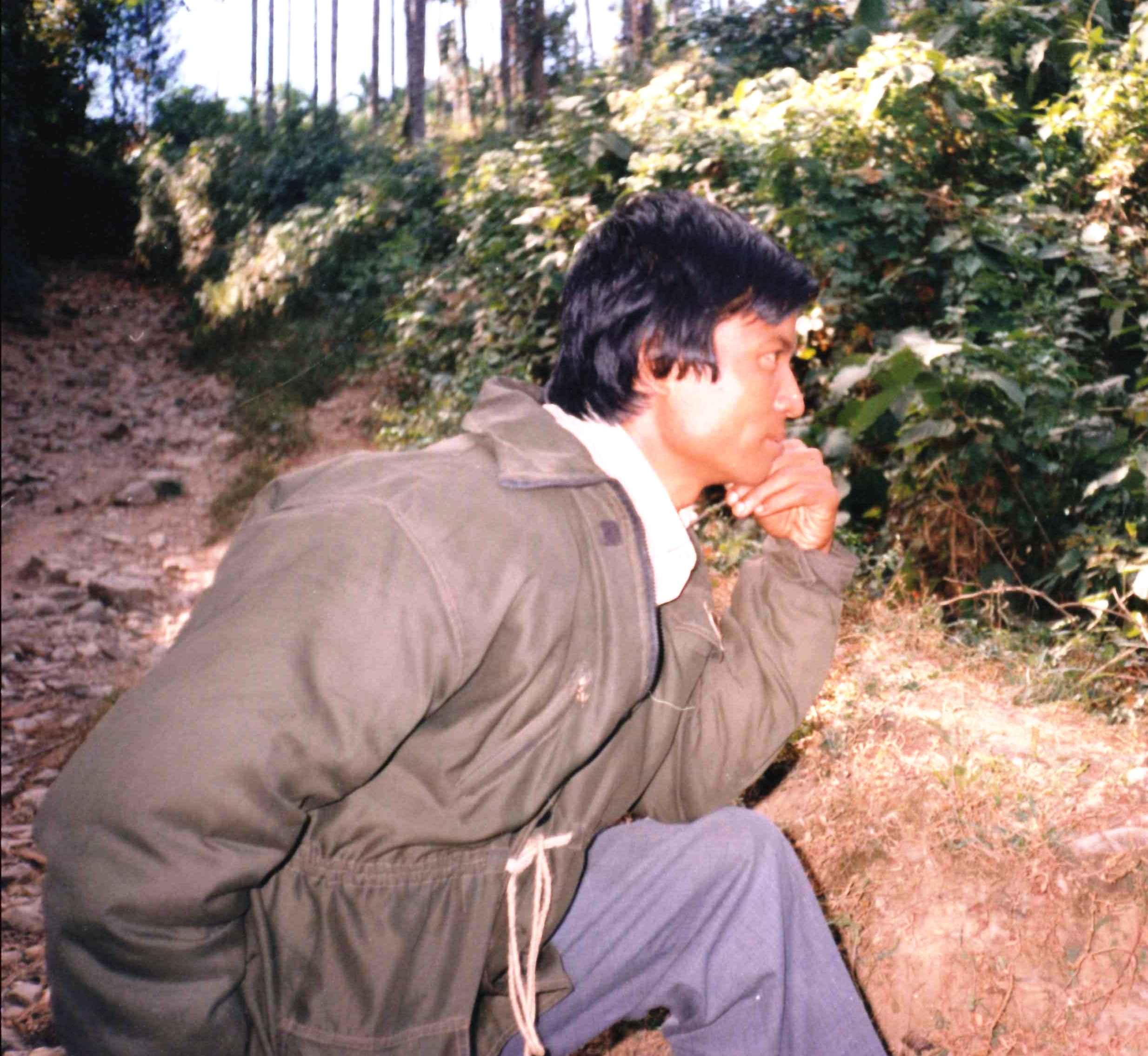 An educated Toto youth at Totopara in West Bengal.